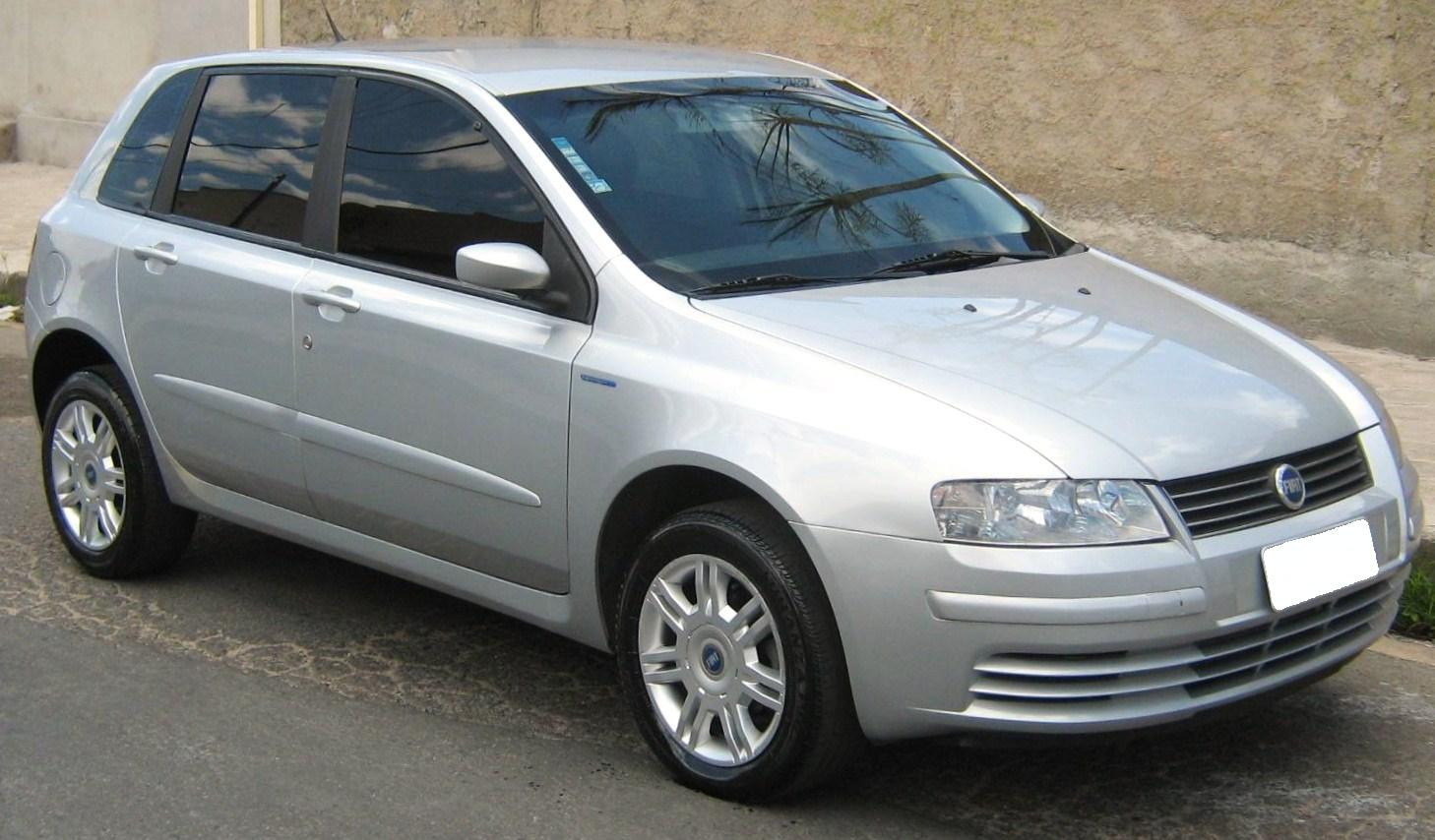 Fiat Stilo with flexyfuel engine in São Paulo, Brazil.